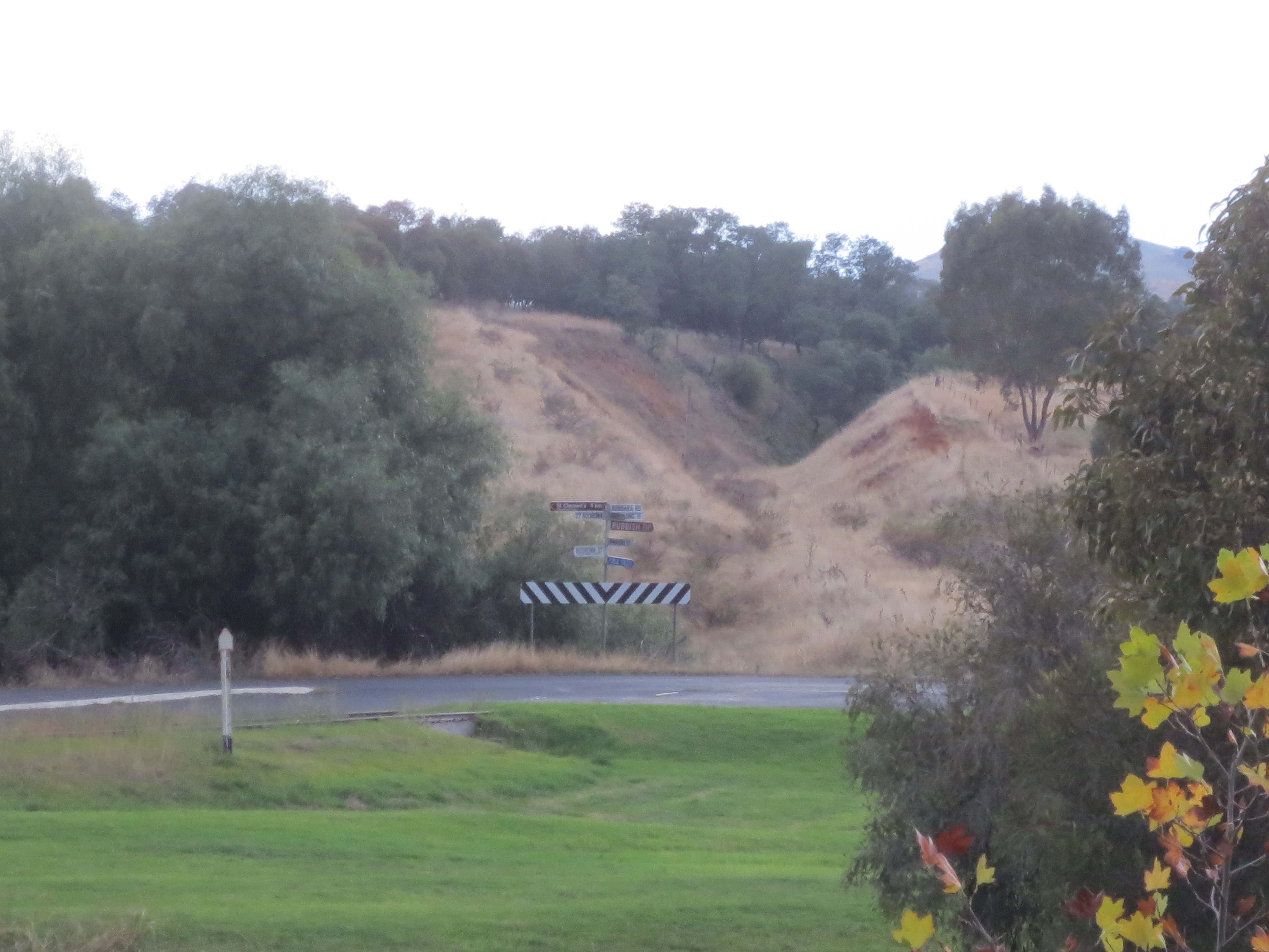 Rail line cutting on abandoned railway line located in Galong, New South Wales, Australia